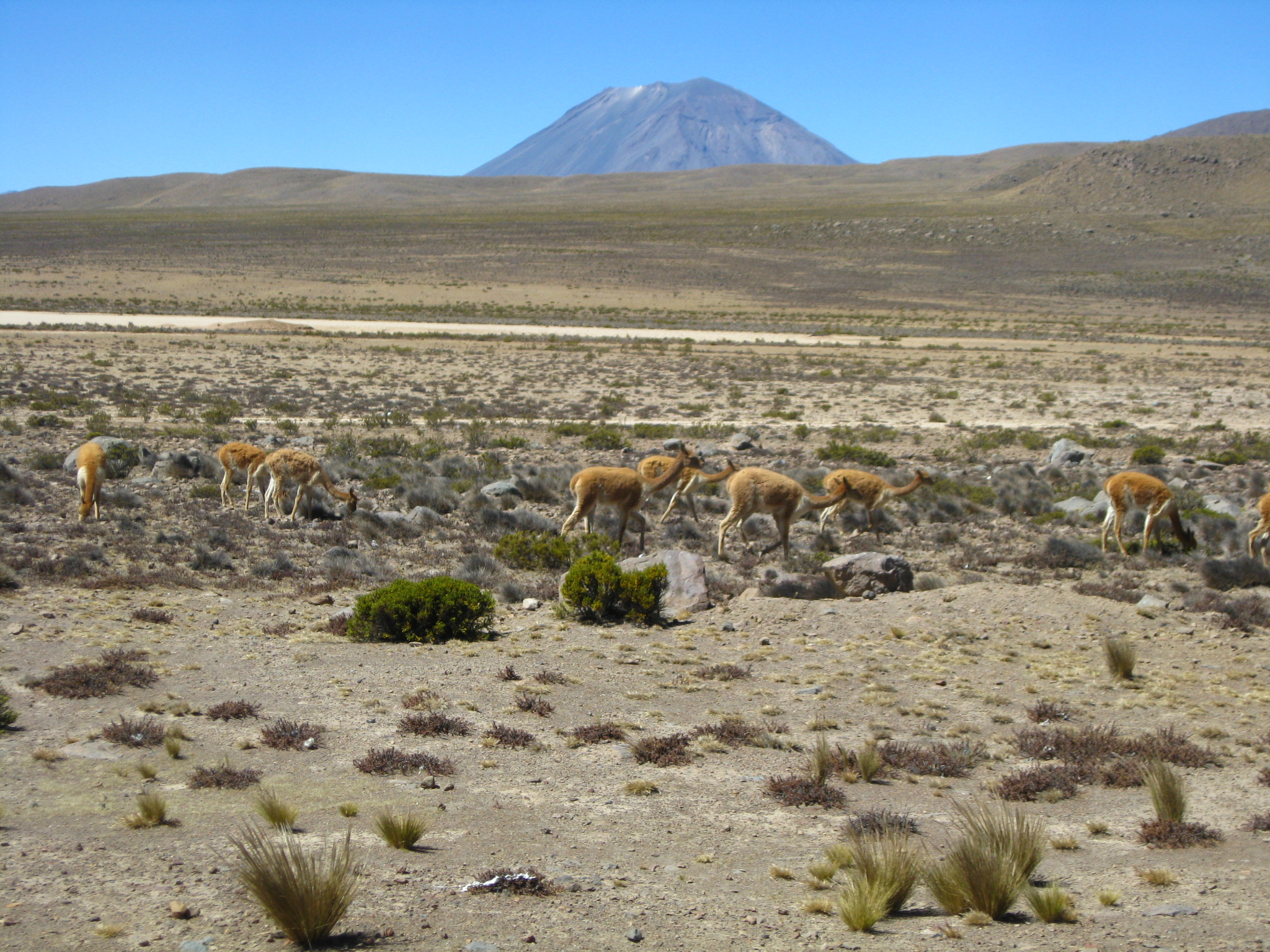 On route to Colca Canyon. View of vicunas eating and Misti volcanoe in Aguada Blanca National Resevation Area, Arequipa Peru.